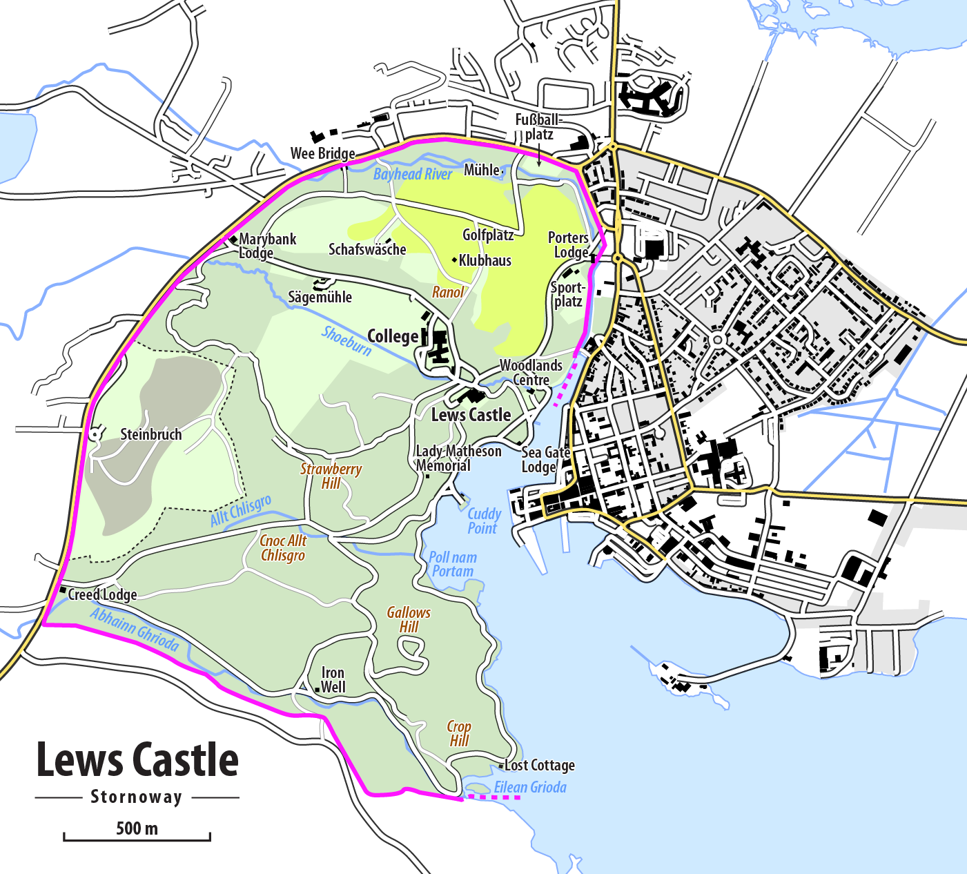 Map of Lews Castle in Stornoway